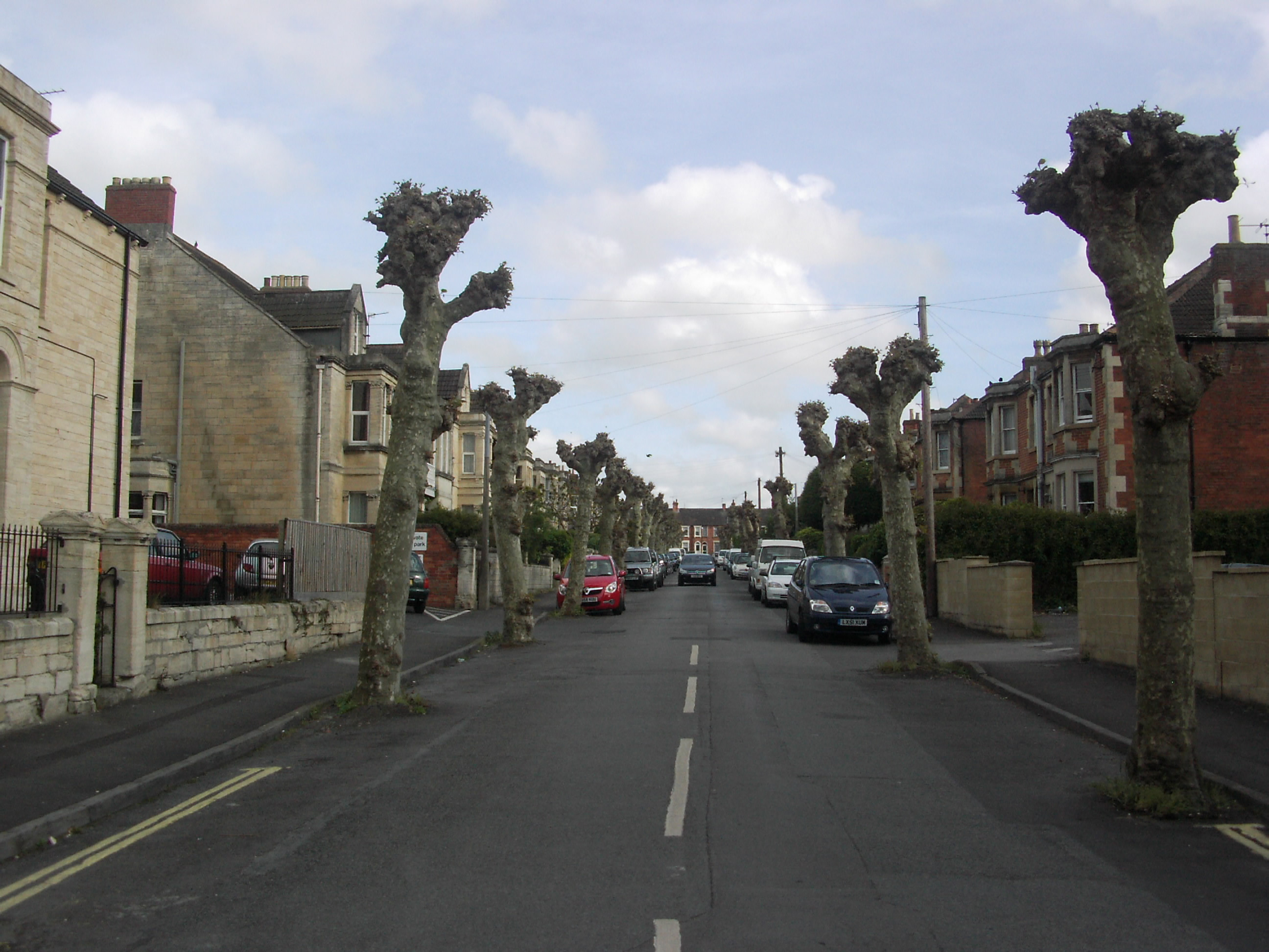 Trowbridge Roads citadel.